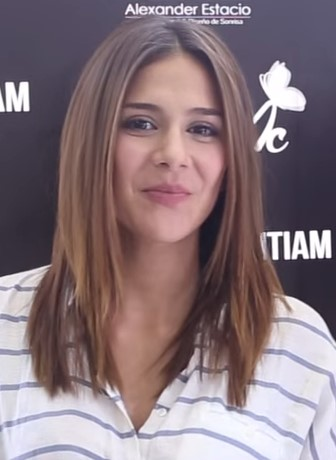 Greeicy Rendón in 2015